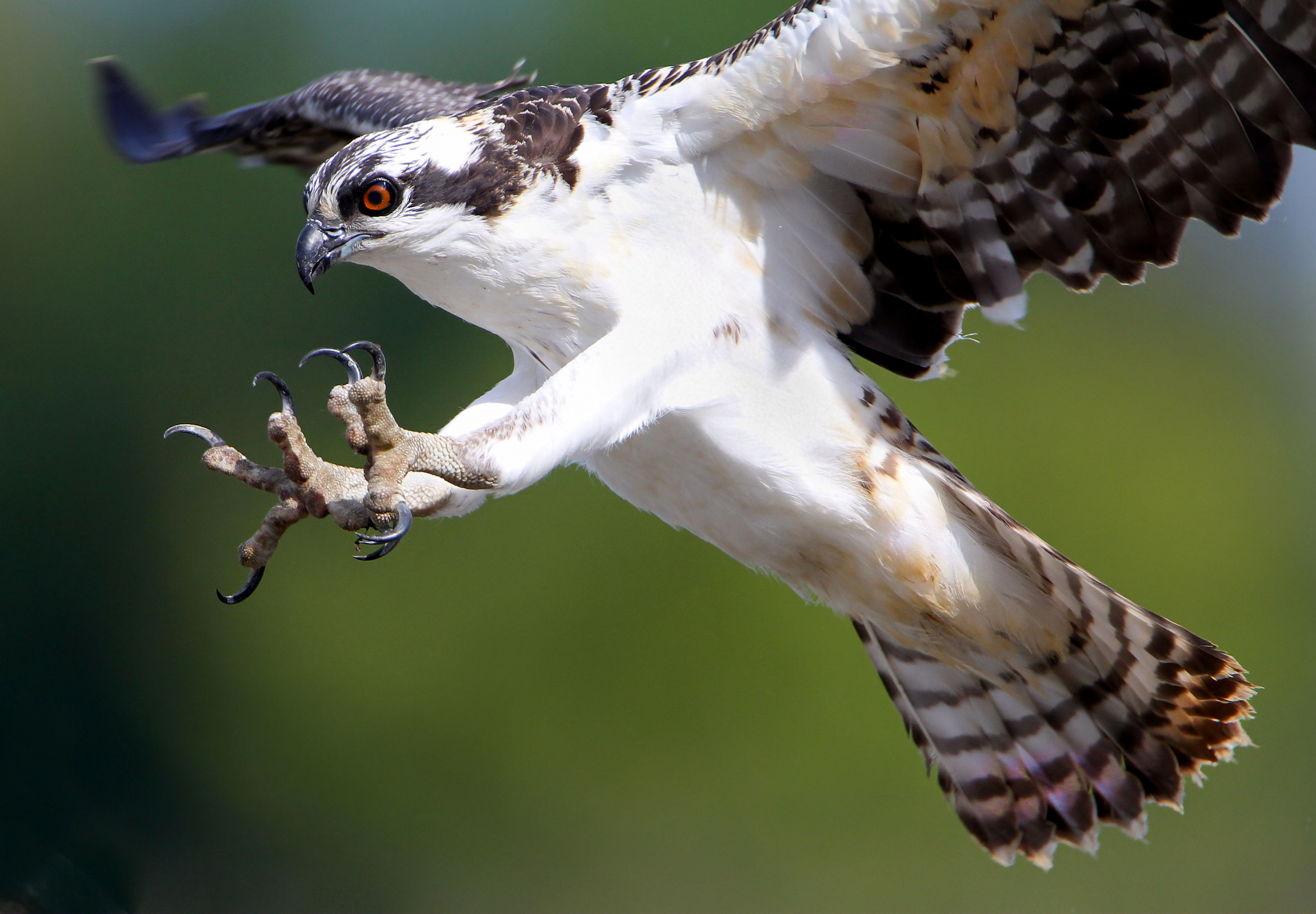 Osprey (Pandion haliaetus), Vancouver area